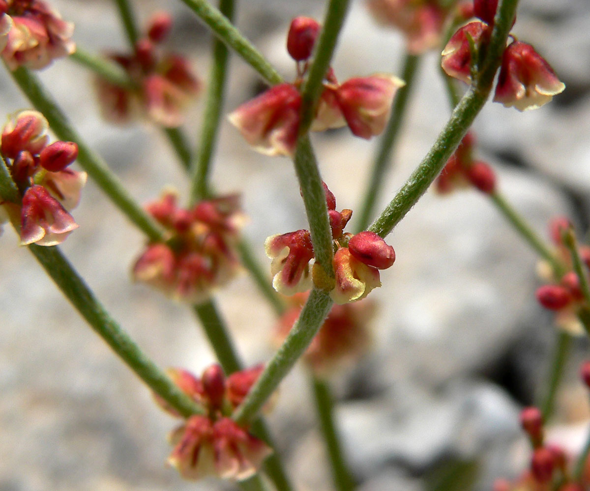 Eriogonum nidularium at the Green Monster Mine north of Sandy Valley, southern Spring Mountains, southern Nevada (elev. about 1000 m)